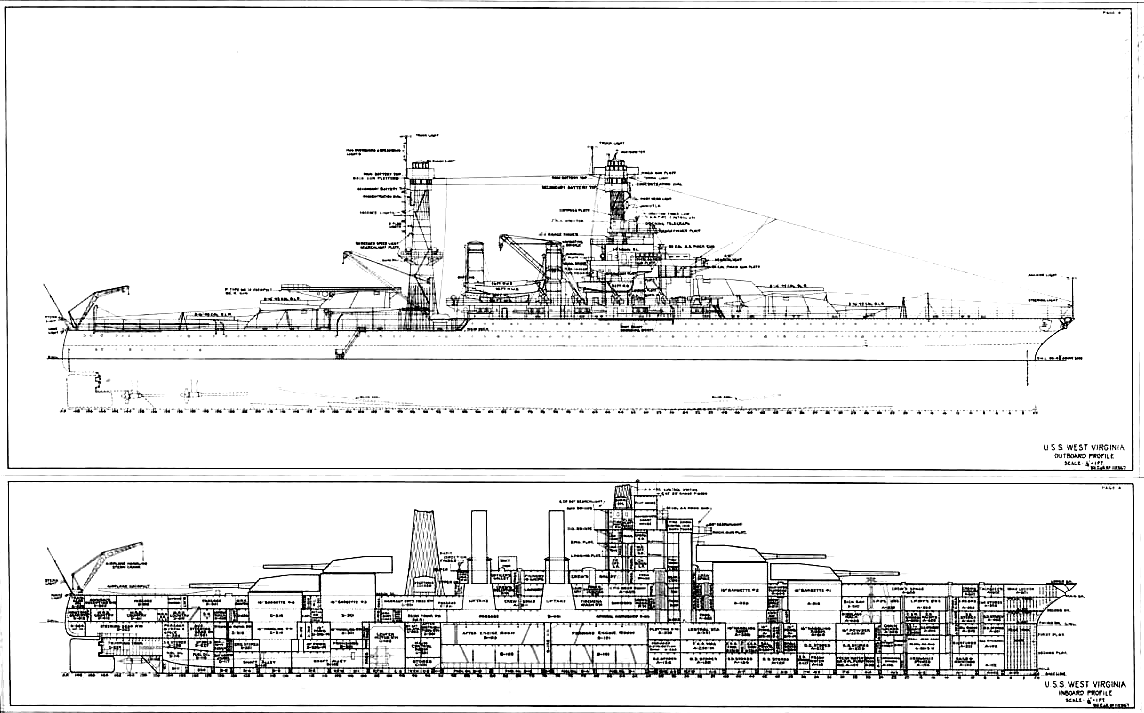 Inboard and outboard profiles for the U.S. Navy battleship USS West Virginia (BB-48), showing her appearance after the addition of catapults but before 7 December 1941.